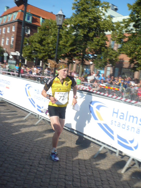 Tove Alexandersson at sprint stage of O-Ringen of 2012 in the center of Halmstad.